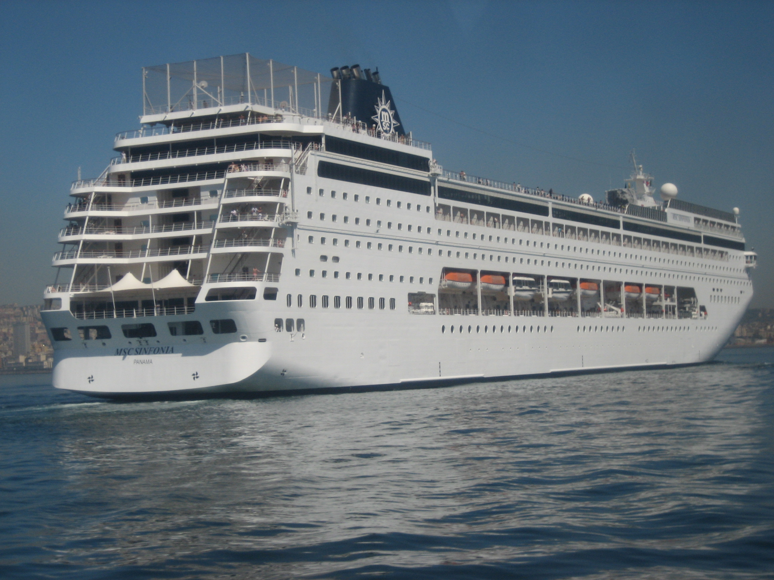 Cruise ship MSC Sinfonia near Naples IMO Number: 9210153 MMSI Number: 356716000 Callsign: H8XH Length: 252 m Beam: 29 m